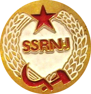 Badge of the SSRNJ of Yugoslavia